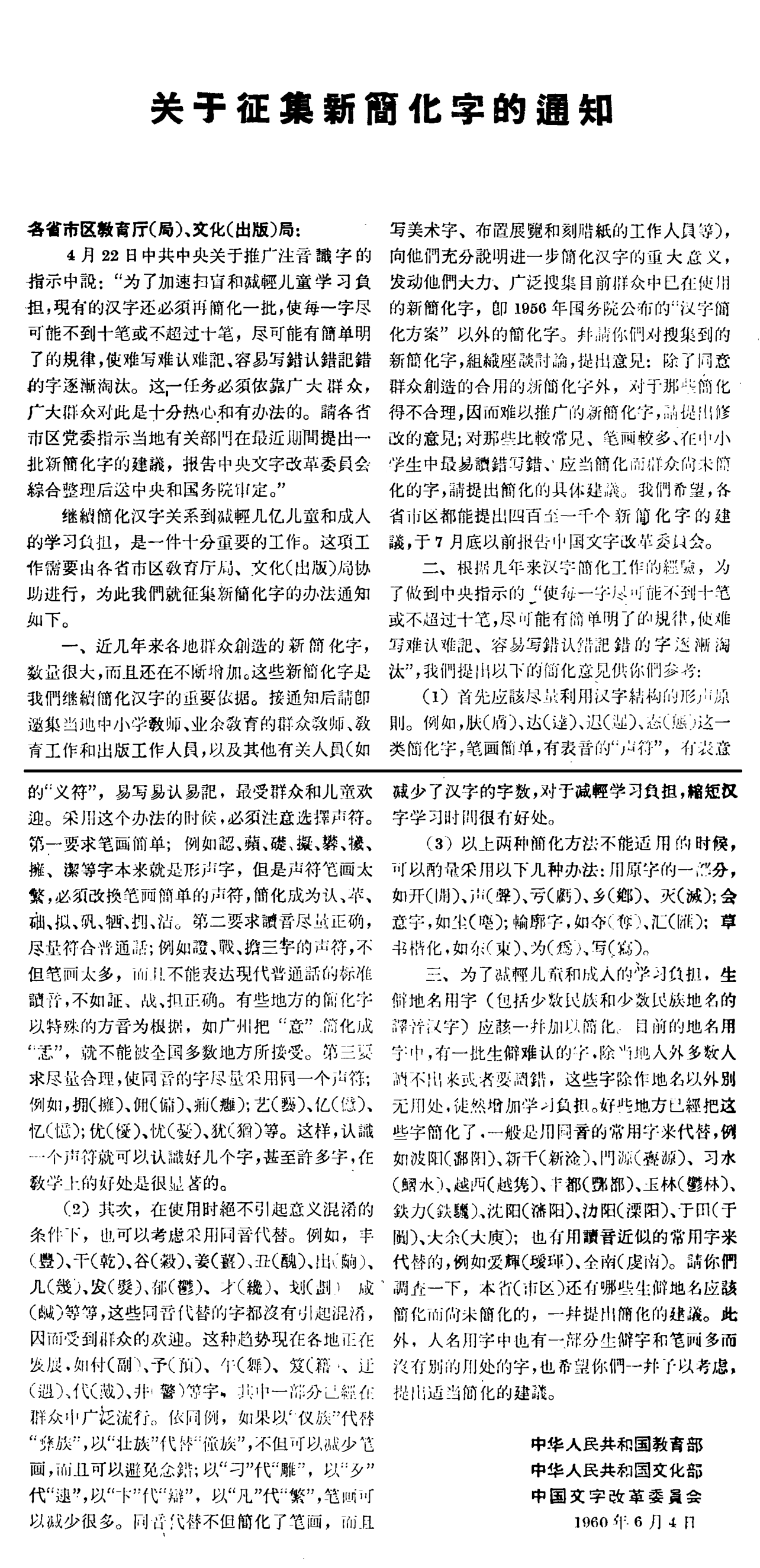 Notice on collecting new simplified characters